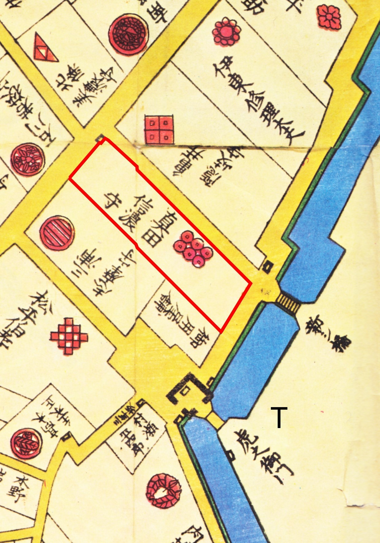 Residence of Sanada clan at Edo